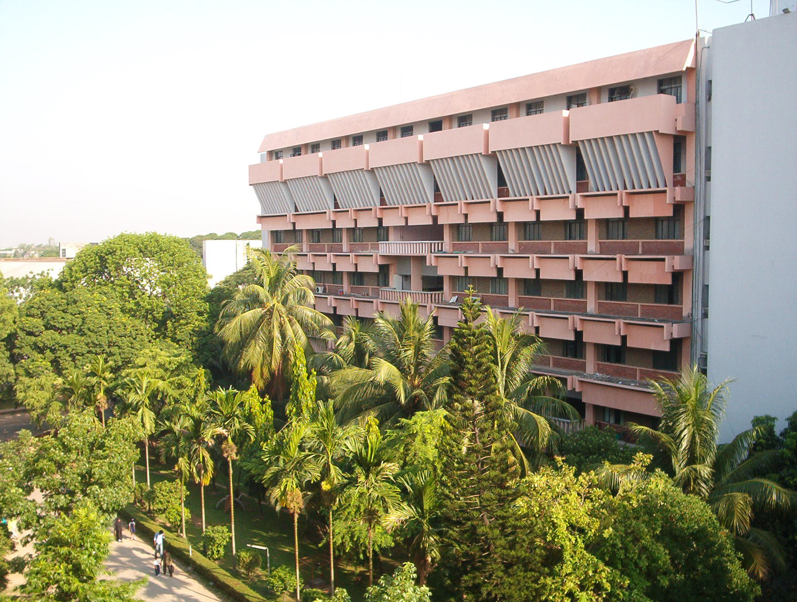 A part of Civil Engineering Building of BUET can be seen here. The photo was shot from 4th floor of BUET's EME Building.